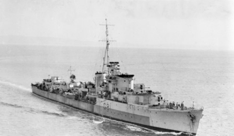 The Australian Q-class destroyer HMAS Quiberon (G81) in 1945.